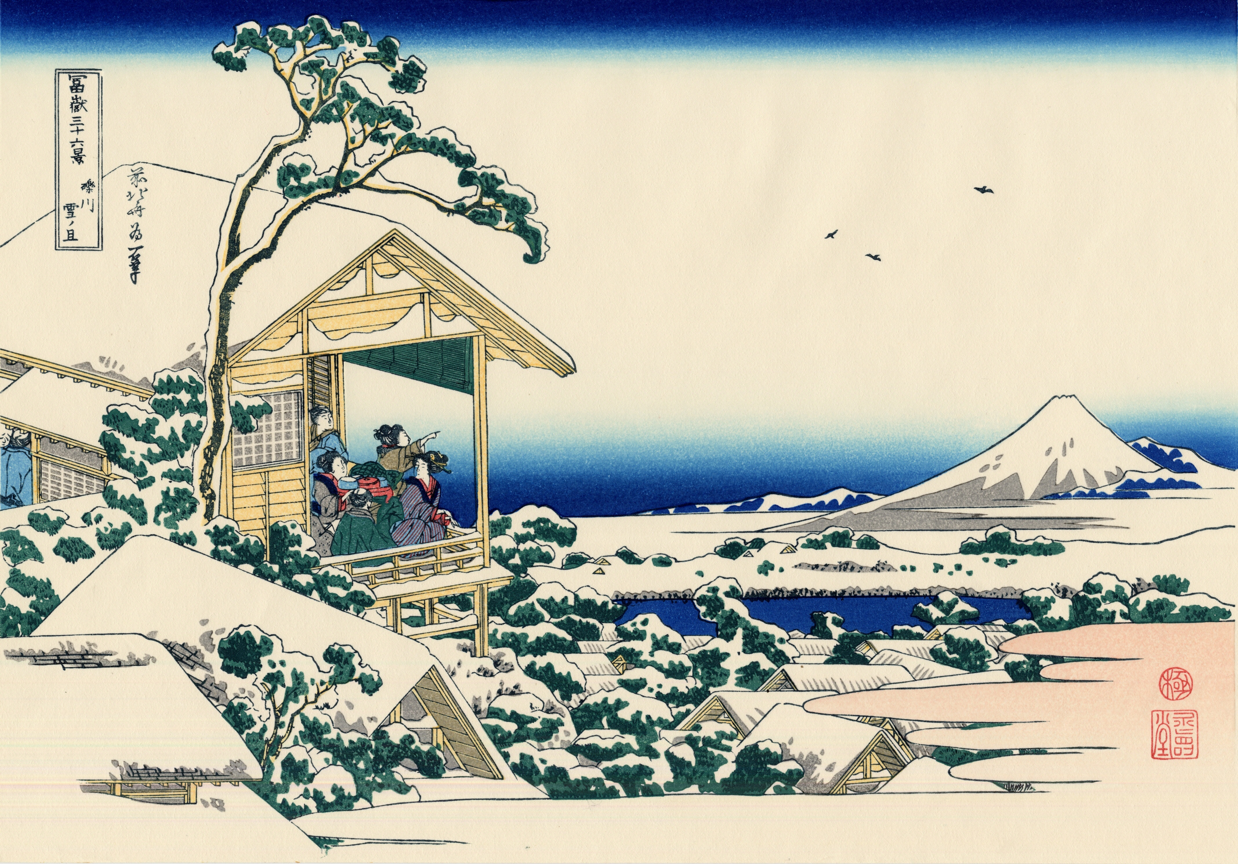 Part of the series Thirty-six Views of Mount Fuji, no. 11.